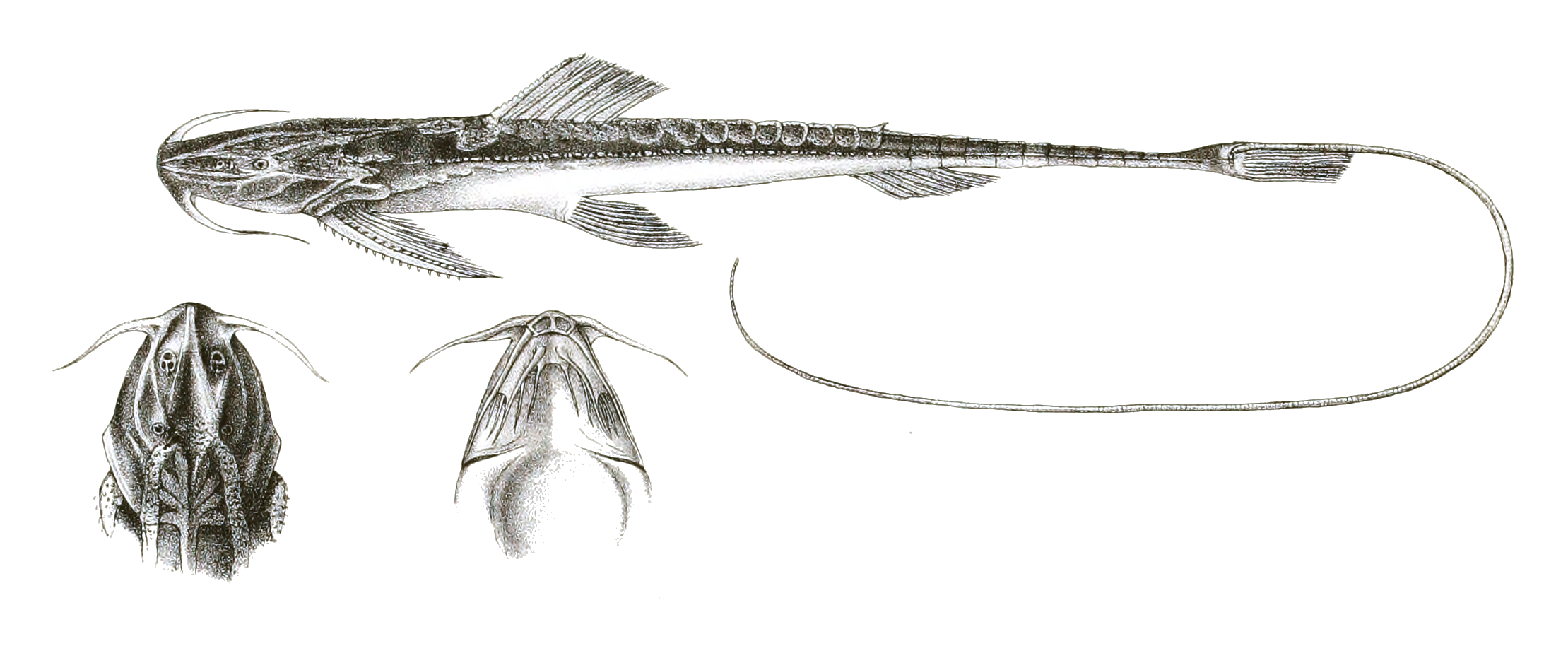 The species names / identity need verification - original names from plate are included here. The original plates showed the fishes facing right and have been flipped here. Sisor rhabdophorus